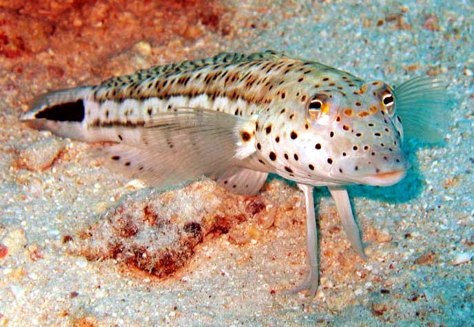 A female Blacktail Grubfish (Parapercis) perched on coral sand. Tracey's Wonderland, Ribbon Reefs, Great Barrier Reef